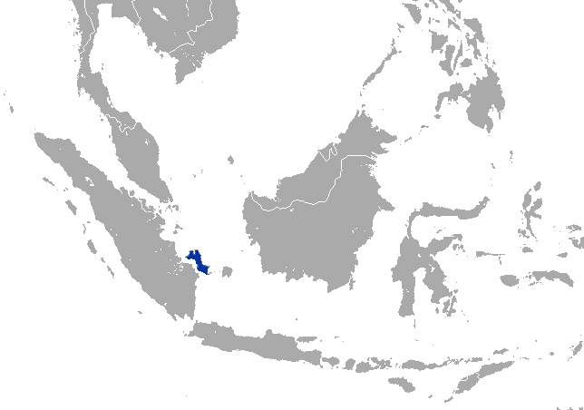 Banka Shrew (Crocidura vosmaeri) range